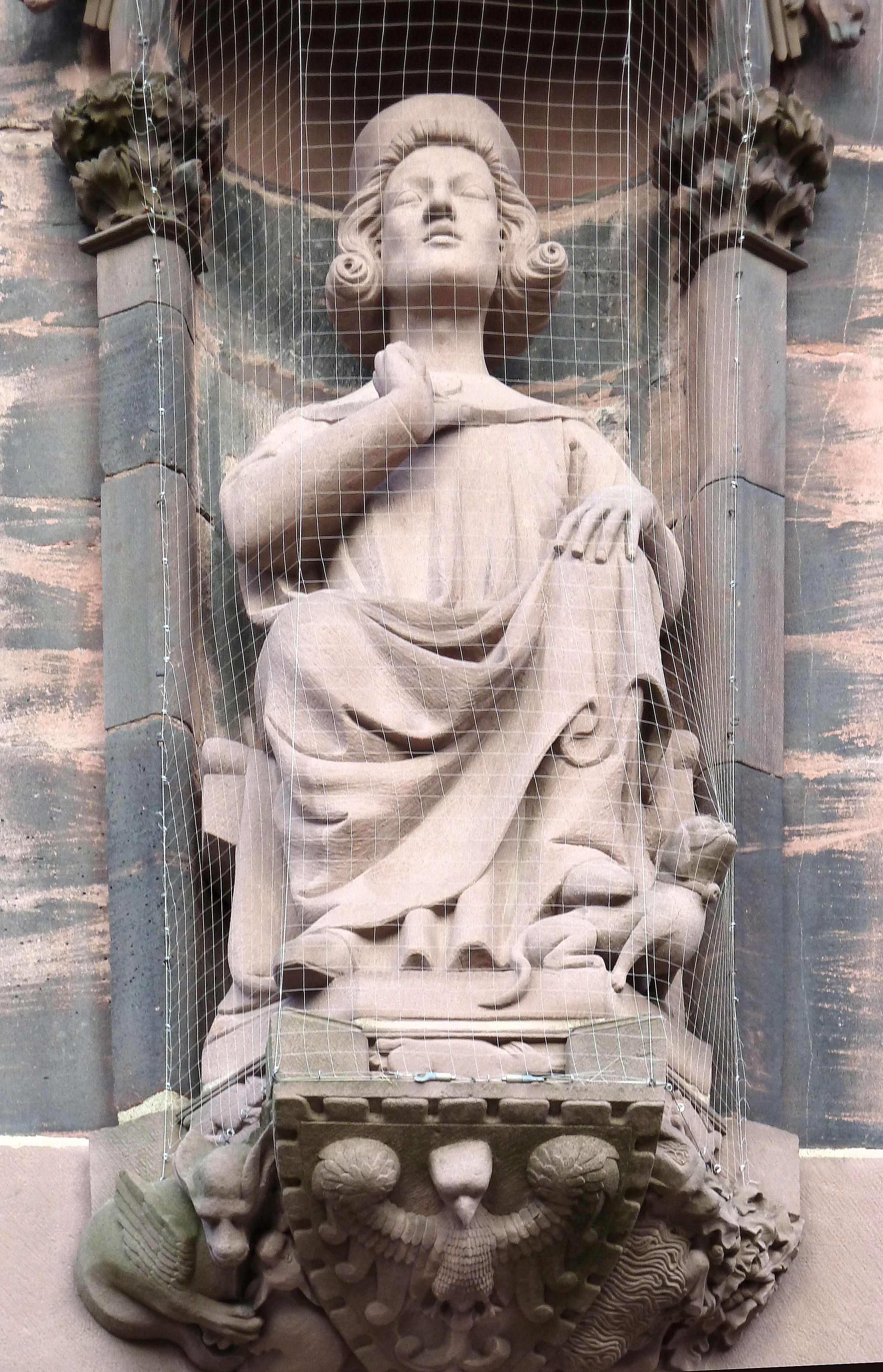 Sculpture at the front face of the Freiburg Minster: Egino II, count of Freiburg